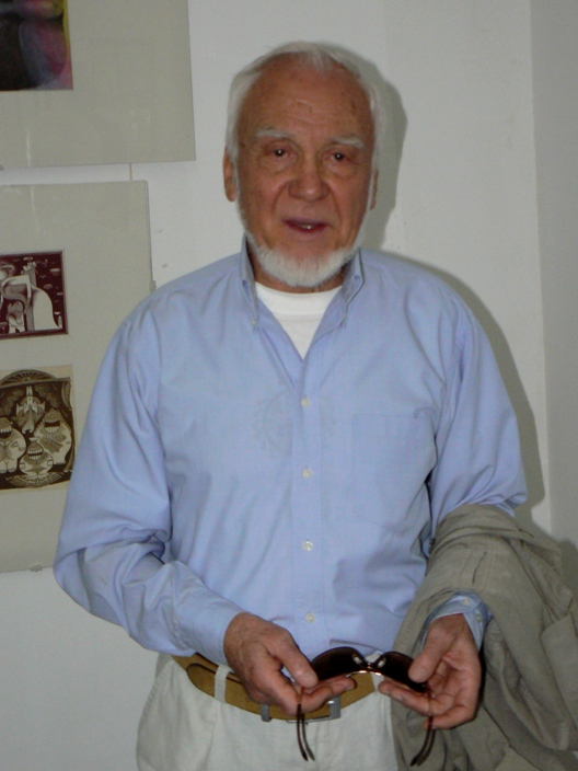 Bulgarian painter and caricaturist Milko Dikov on the opening of a joint exhibition on 3 September 2010 in Sofia, Bulgaria